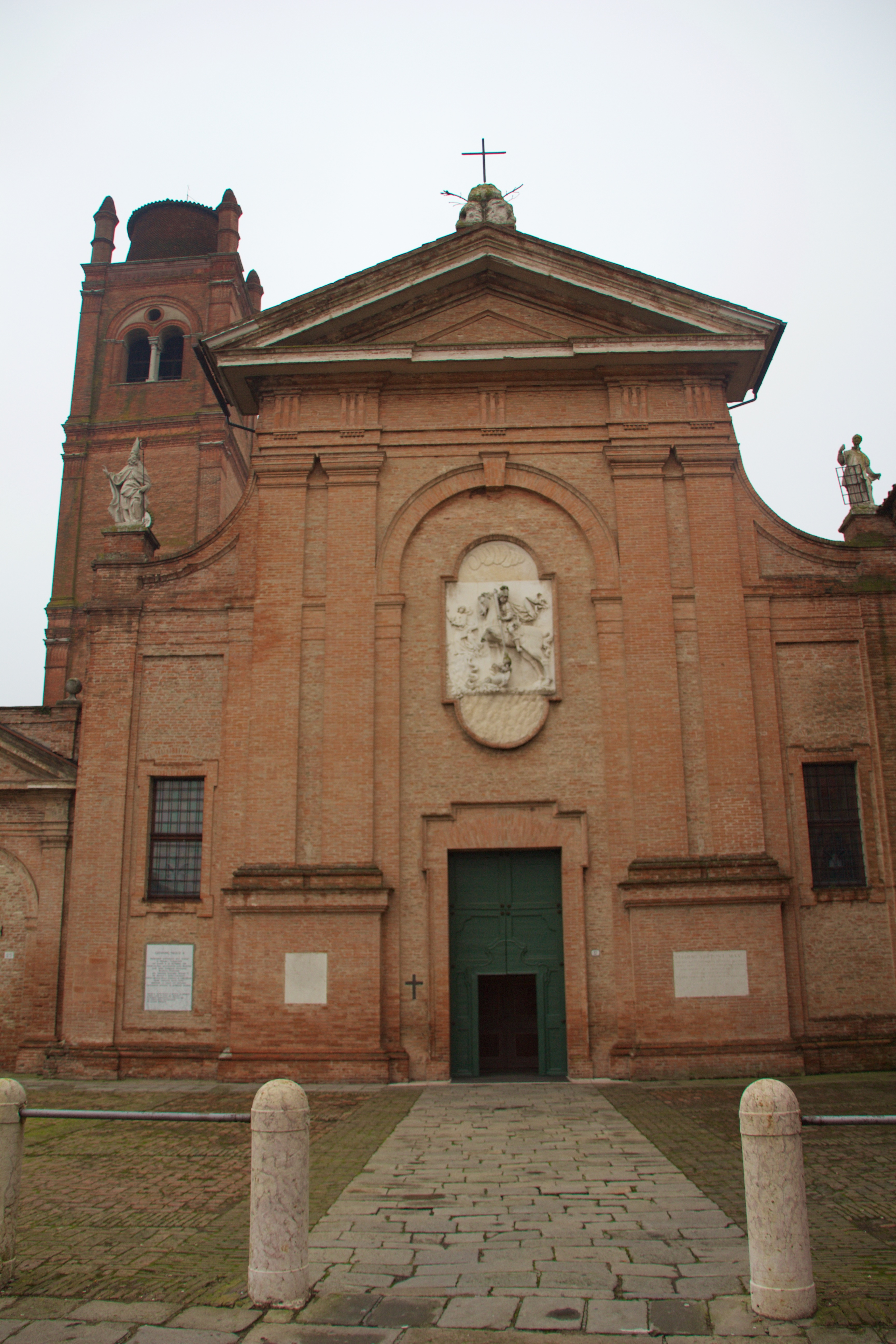 Basilica San Giorgio, Ferrara, Italy